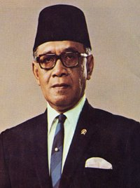 Sri Sultan Hamengkubuwono IX, Sultan of Yogyakarta, the 2nd vice president of Indonesia.